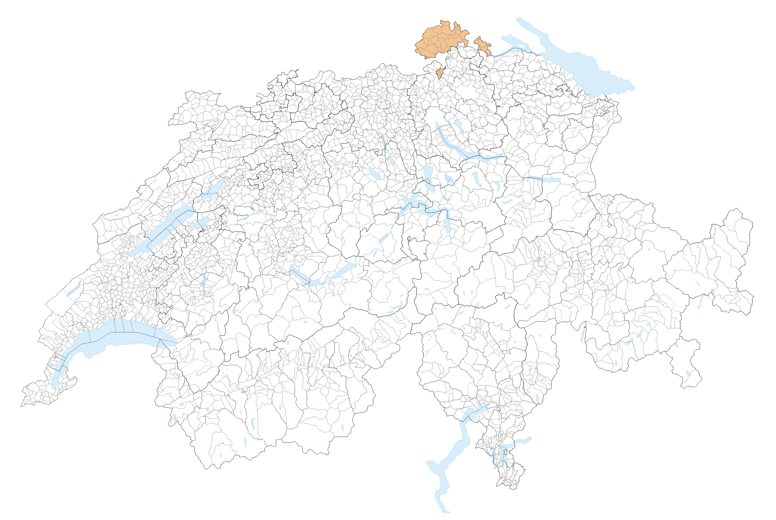 Kanton Schaffhausen